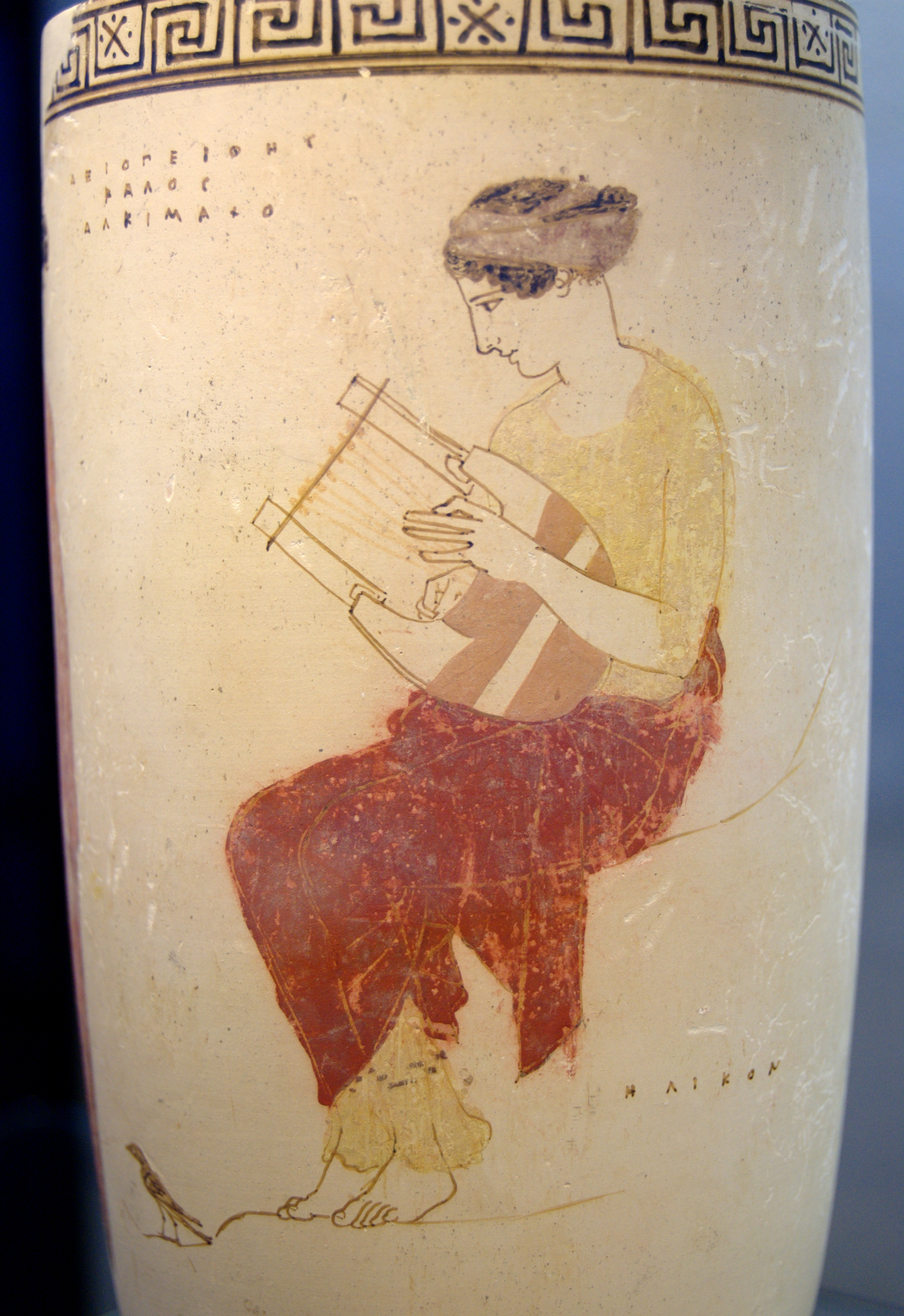 Muse playing the lyre. The rock on which she is seated bears the inscription ΗΛΙΚΟΝ / Hēlikon. Attic white-ground lekythos, 440–430 BC.